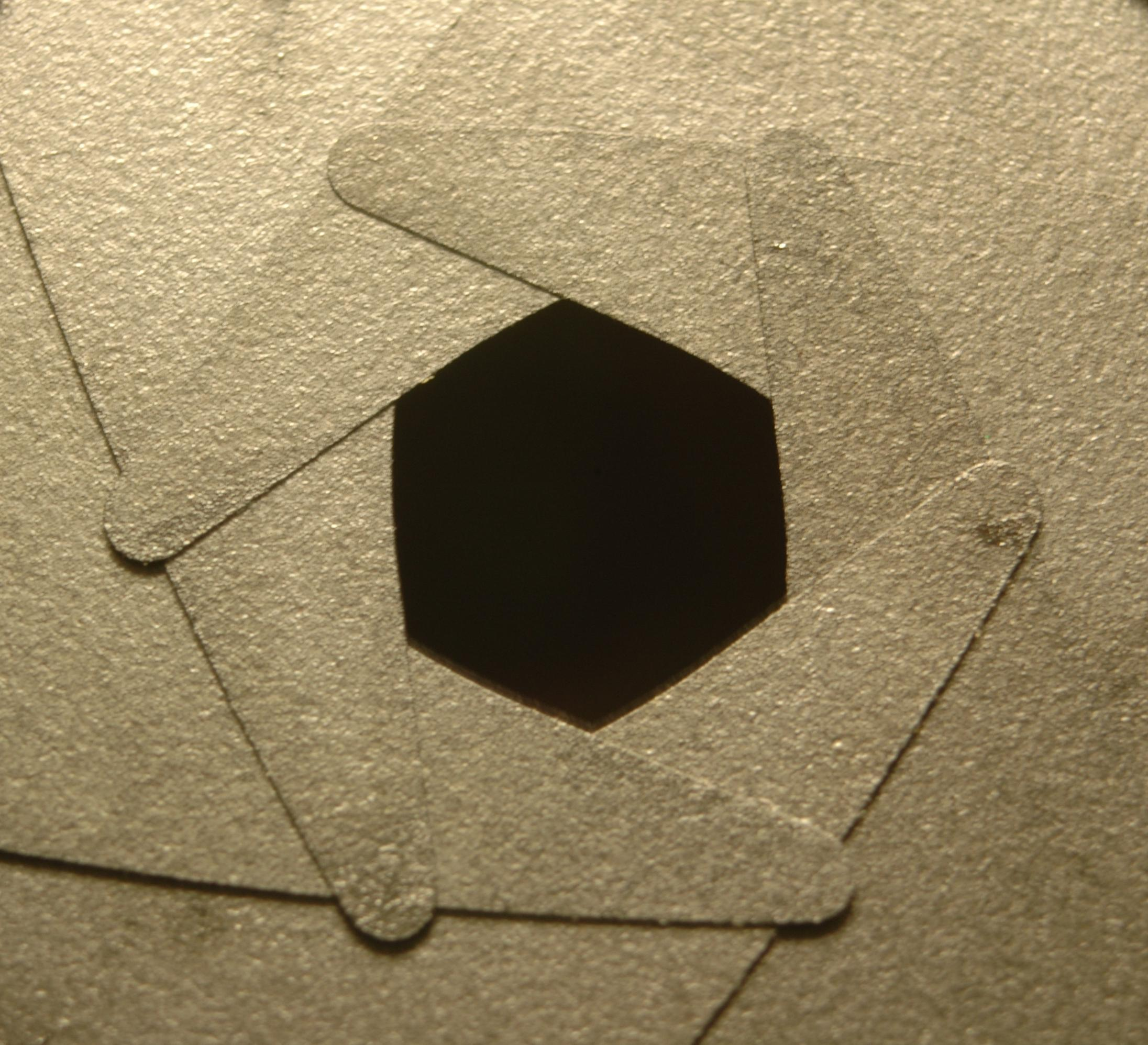 A six-blade iris from a camera lens